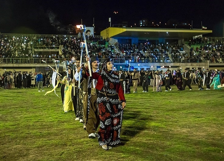 نوروز